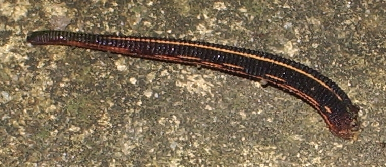 A leech in a yard in a Sydney suburb